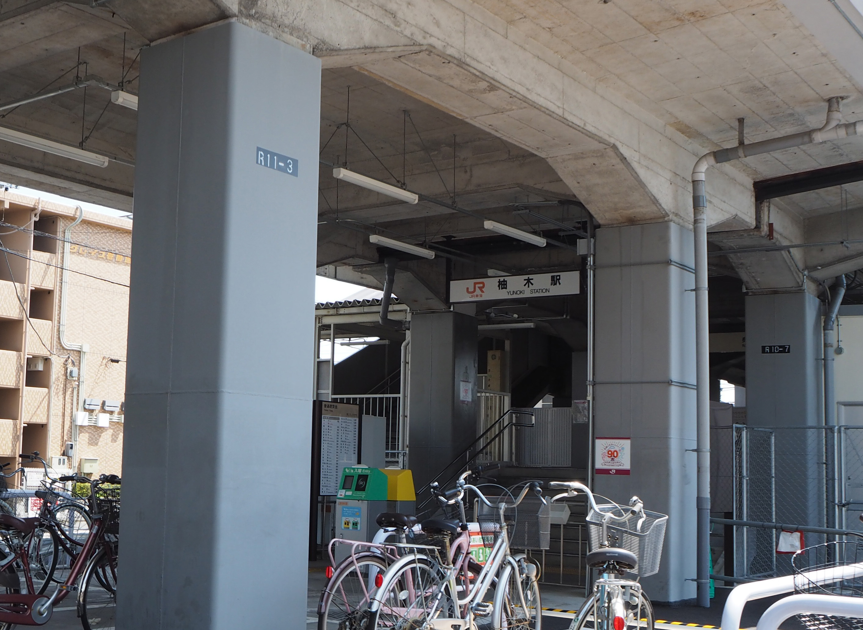 Yunoki Station